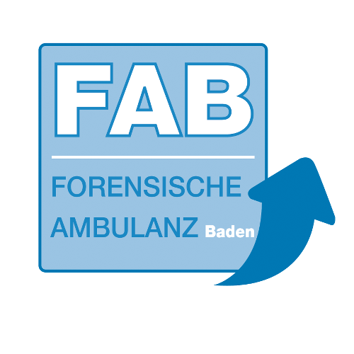 Logo Forensische Ambulanz Baden